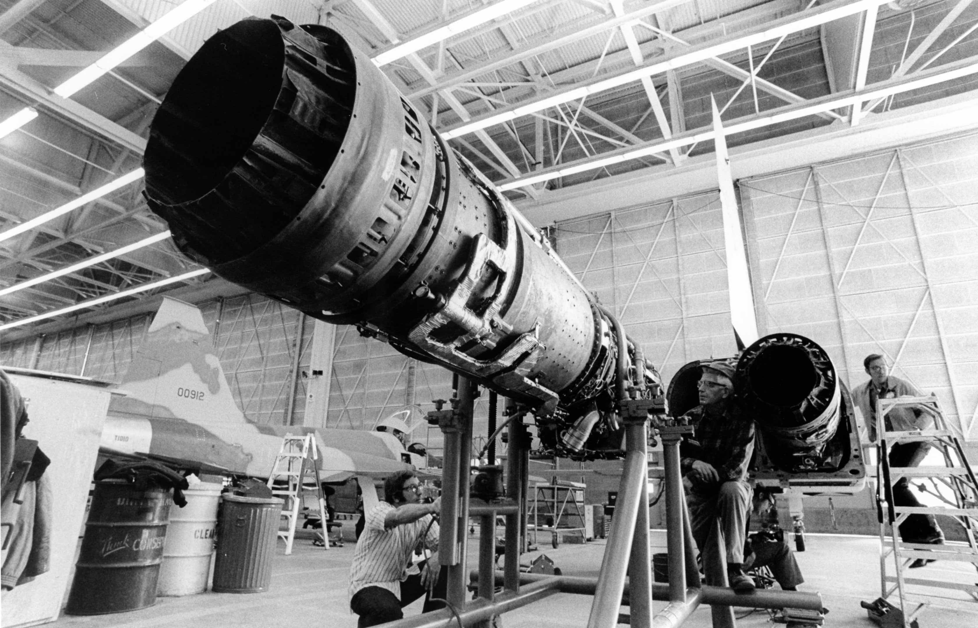 United States, Northrop Corporation F-5 E Tiger II assembly line in Hawthorne plant.